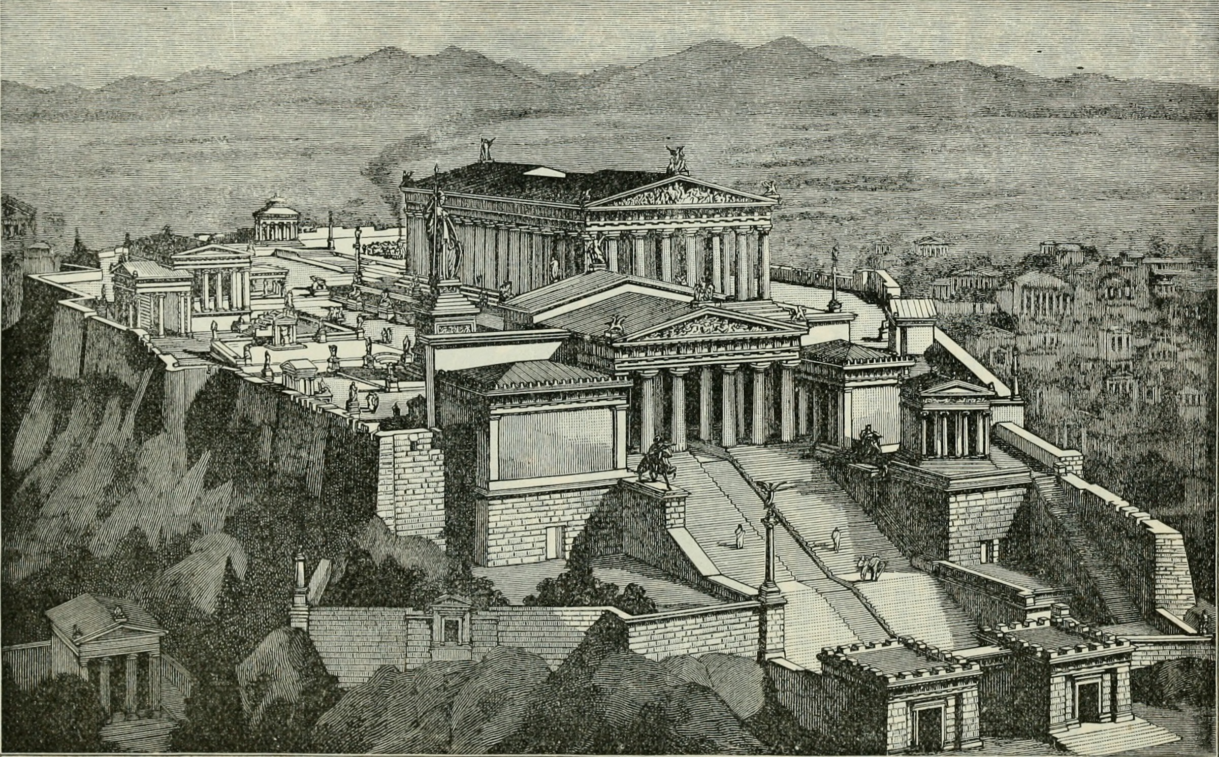 Title: Eastern Nations and Greece Year: 1898 (1890s) Authors: Myers, Philip Van Ness, 1846-1937 Subjects: History, Ancient Greece -- History Publisher: Boston, Ginn Text Appearing Before Image: ATHENIAN YOUTH IN PROCESSiON. (FTom the Frieze of the Parthenon.) genius and piety adorned this spot with temples and statues thatall the world has pronounced to be faultless specimens of beautyand taste. The most celebrated of the buildings upon the Acropolis was theParthenon, the Residence of the virgin-goddess Athena. Thisis considered the finest specimen of Greek architecture. It wasdesigned by the architect Ictinus, but the sculptures that adornedit were the work of the celebrated Phidias.^ It was built in the ^ The subject of the wonderful frieze running round the temple was the pro-cession which formed the most important feature of the Athenian festivalknown as the Greater Panathensea, which was celebrated every four years in Text Appearing After Image: THE MAUSOLEUM AT HALICARNASSUS. 291 Doric order, of marble from the neighboring Pentelicus. Afterstanding for more than two thousand years, and having servedsuccessively as a Pagan temple, a Christian church, and a Moham-medan mosque, it finally was made to serve as a Turkish powder-magazine, in a war with the Venetians, in 1687. During theprogress of this contest a bomb fired the magazine, and more thanhalf of this masterpiece of ancient art was shivered into fragments.The front is still quite perfect, and is the most prominent featureof the Acropolis at the present time.